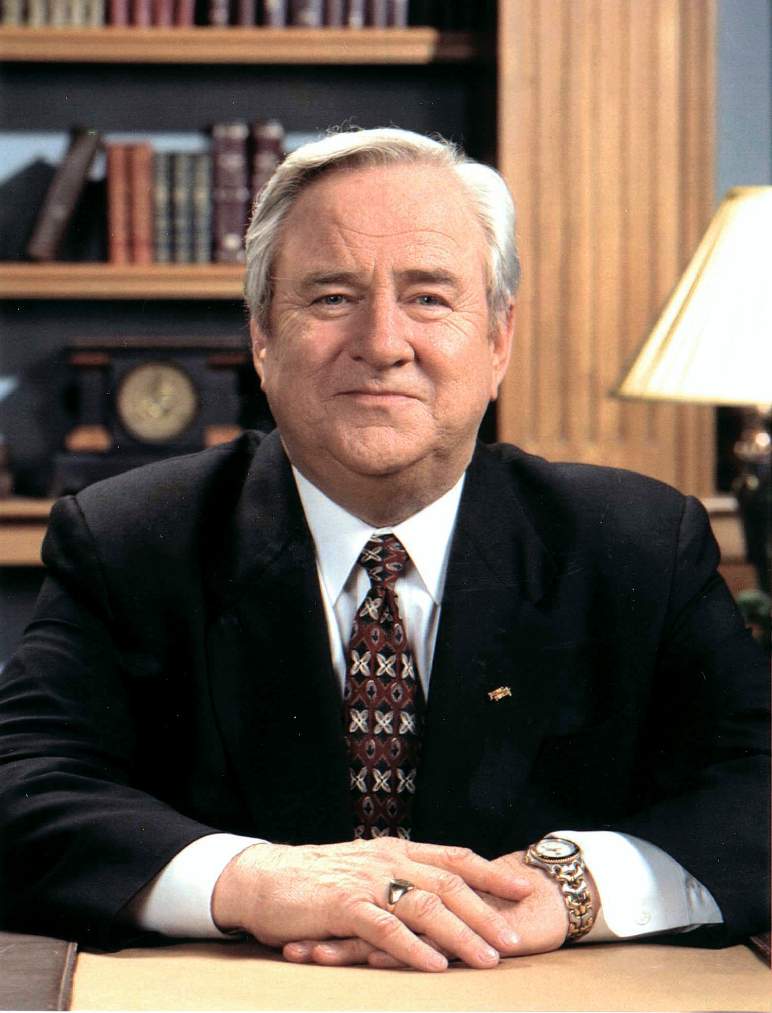 Dr. Jerry Falwell (en, d. 2007), the founder of Liberty University (en), was a Christian pastor and televangelist.